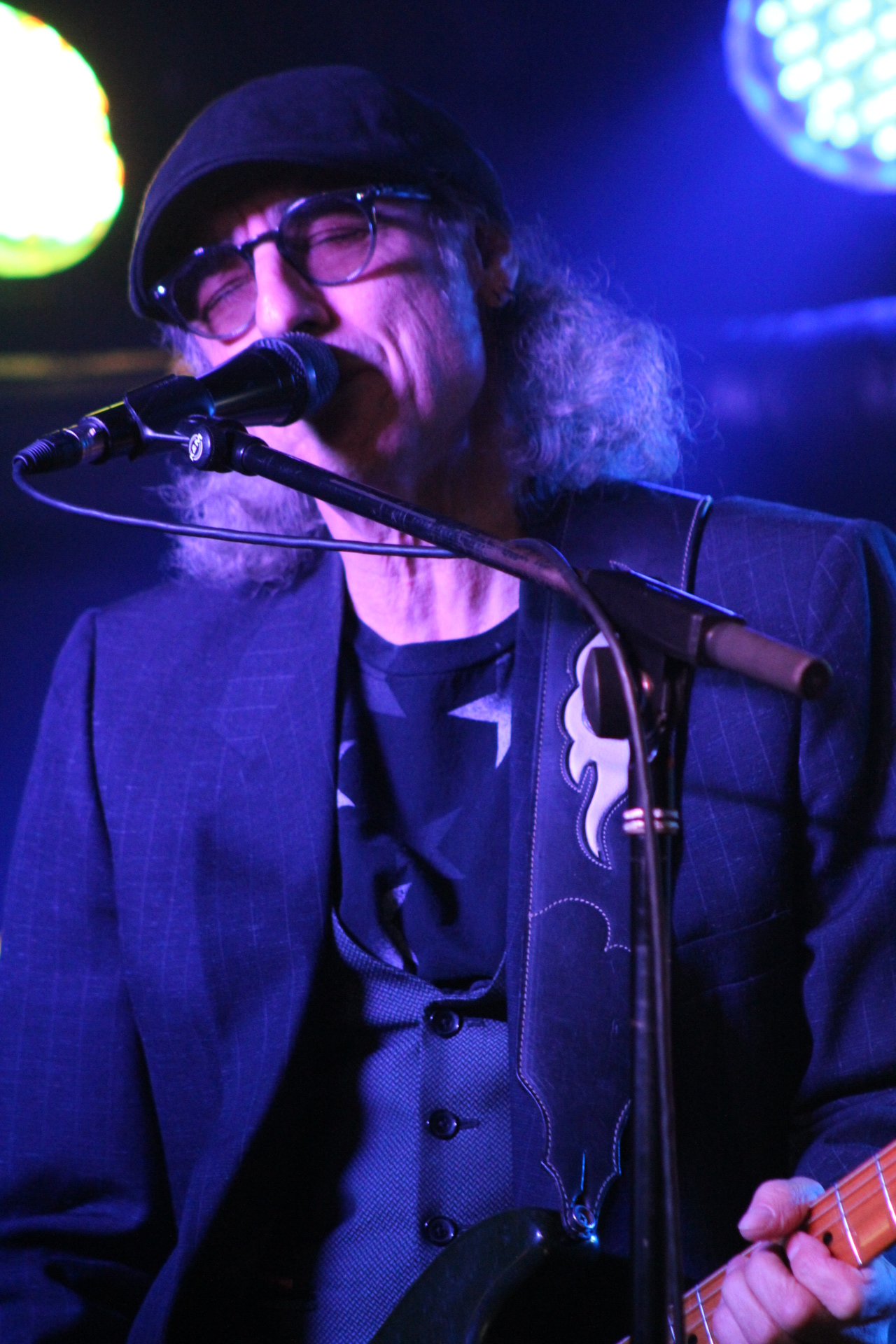 Michael Charles press photo 2018